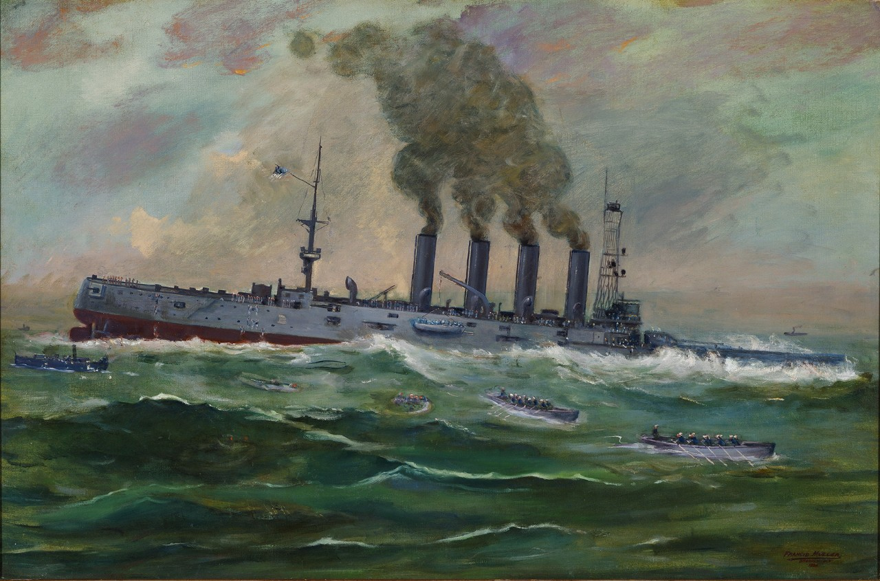 A 1920 watercolor of the sinking of USS San Diego in 1918 by Francis Muller. It show the ship sinking off Fire Island, New York, after she was torpedoed by the German submarine U-156, 19 July 1918.